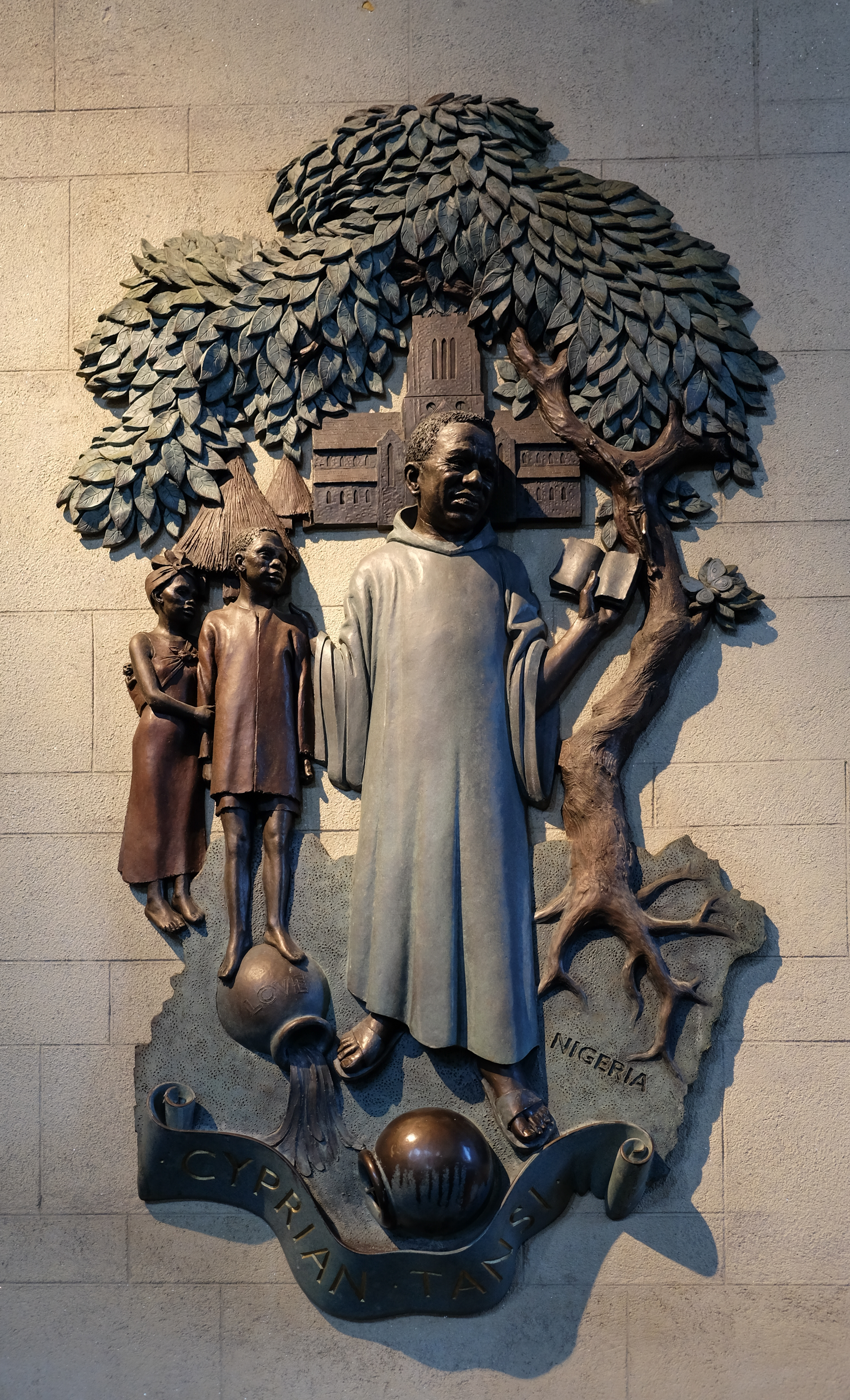 Sculpture of Blessed Cyprian Michael Iwene Tansi by Leicester Thomas mounted on the wall in Mount Saint Bernard Abbey, Leicestershire.